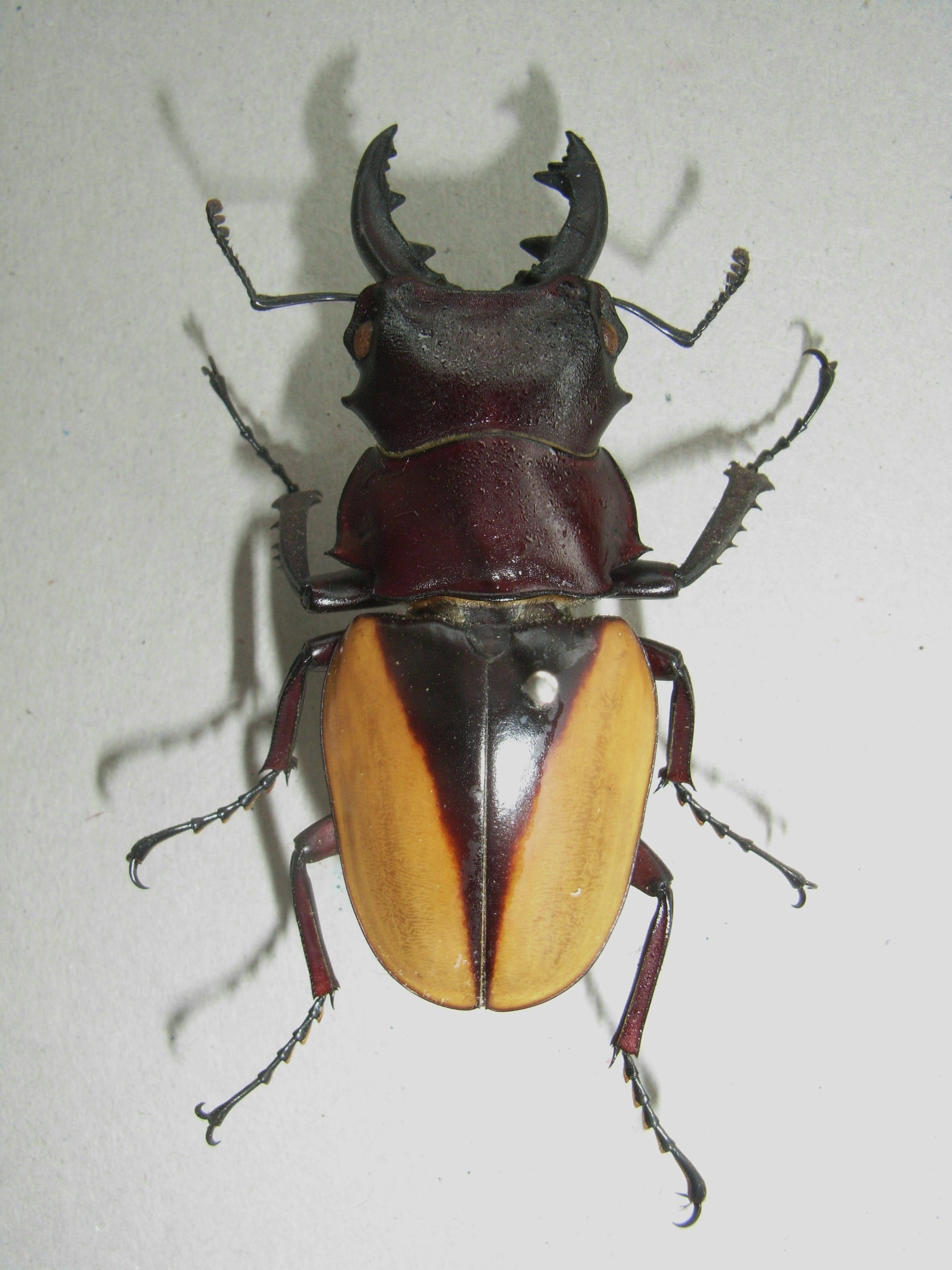 Odontolabis cuvera